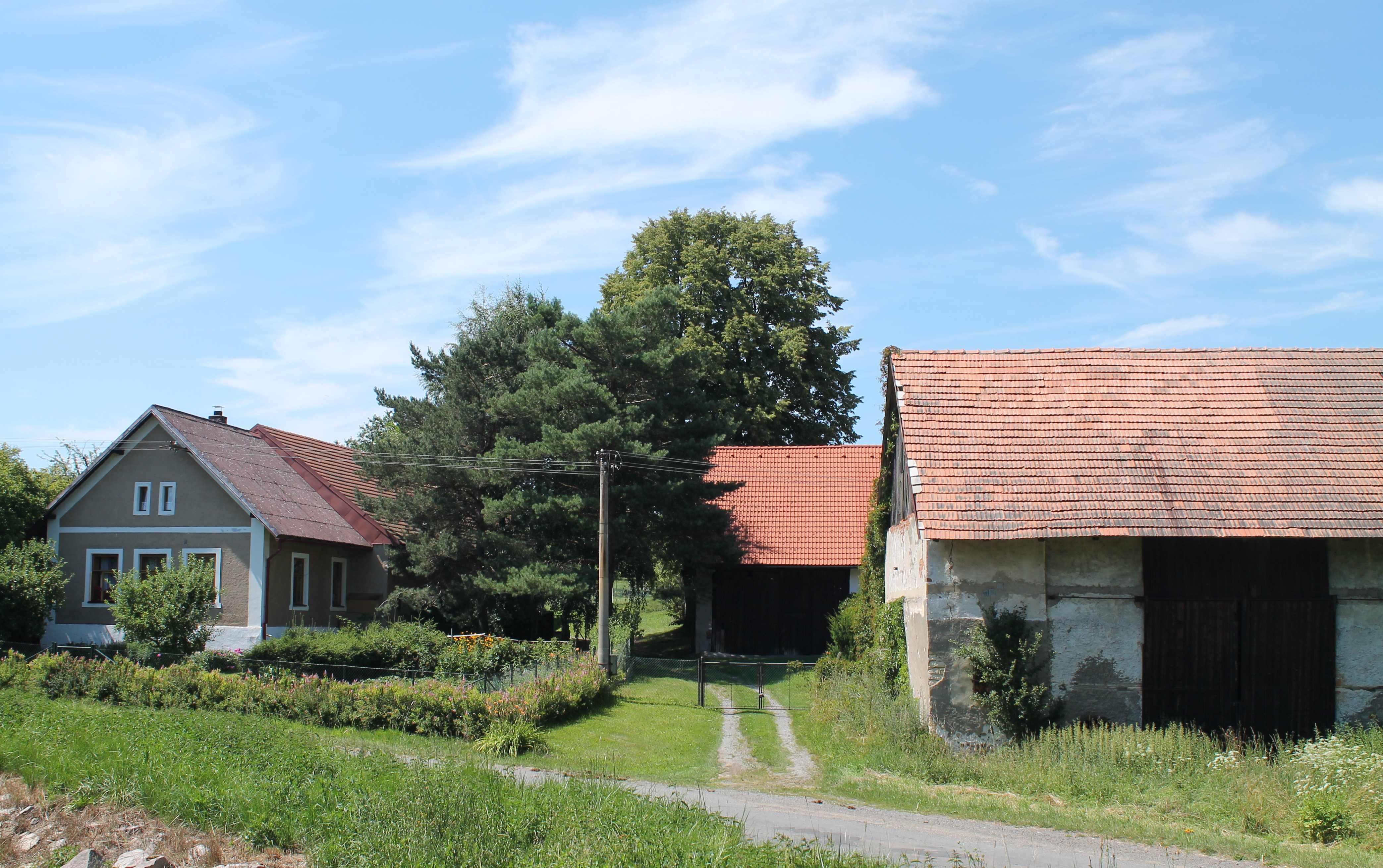 Dolívka, Předhradí, Chrudim District, Czech Republic